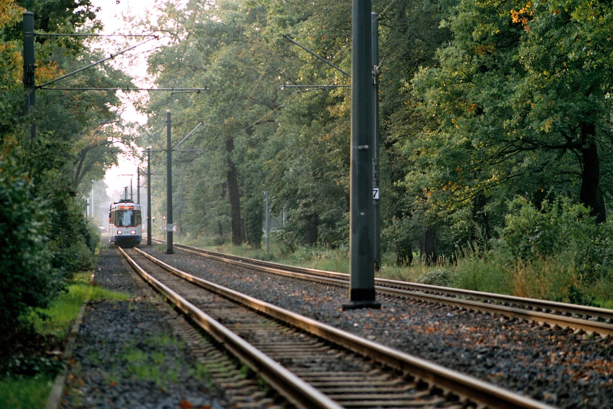 Tram tracks and one of the old trains in Darmstadt, Germany. The tram in Darmstadt drives all the way to Griesheim. Taken by me, October 2006.